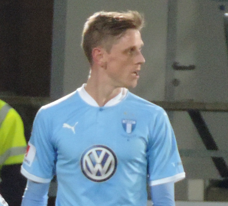 Practice game at Malmö IP, Malmö FF - FC Flora 4-0, 2018 Jan 26